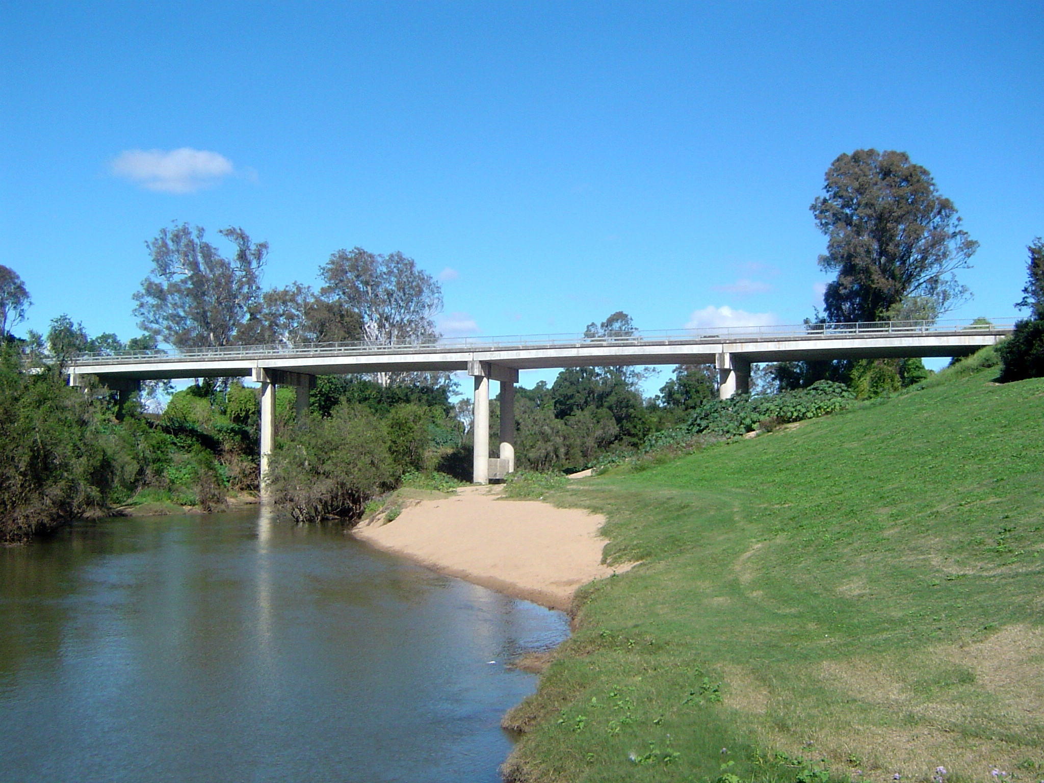 Photo of the Logan River and Cusack Lane bridge at Jimboomba Lions Park, Jimboomba, South East Queensland, Australia.